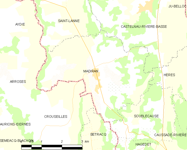 Map of French municipality